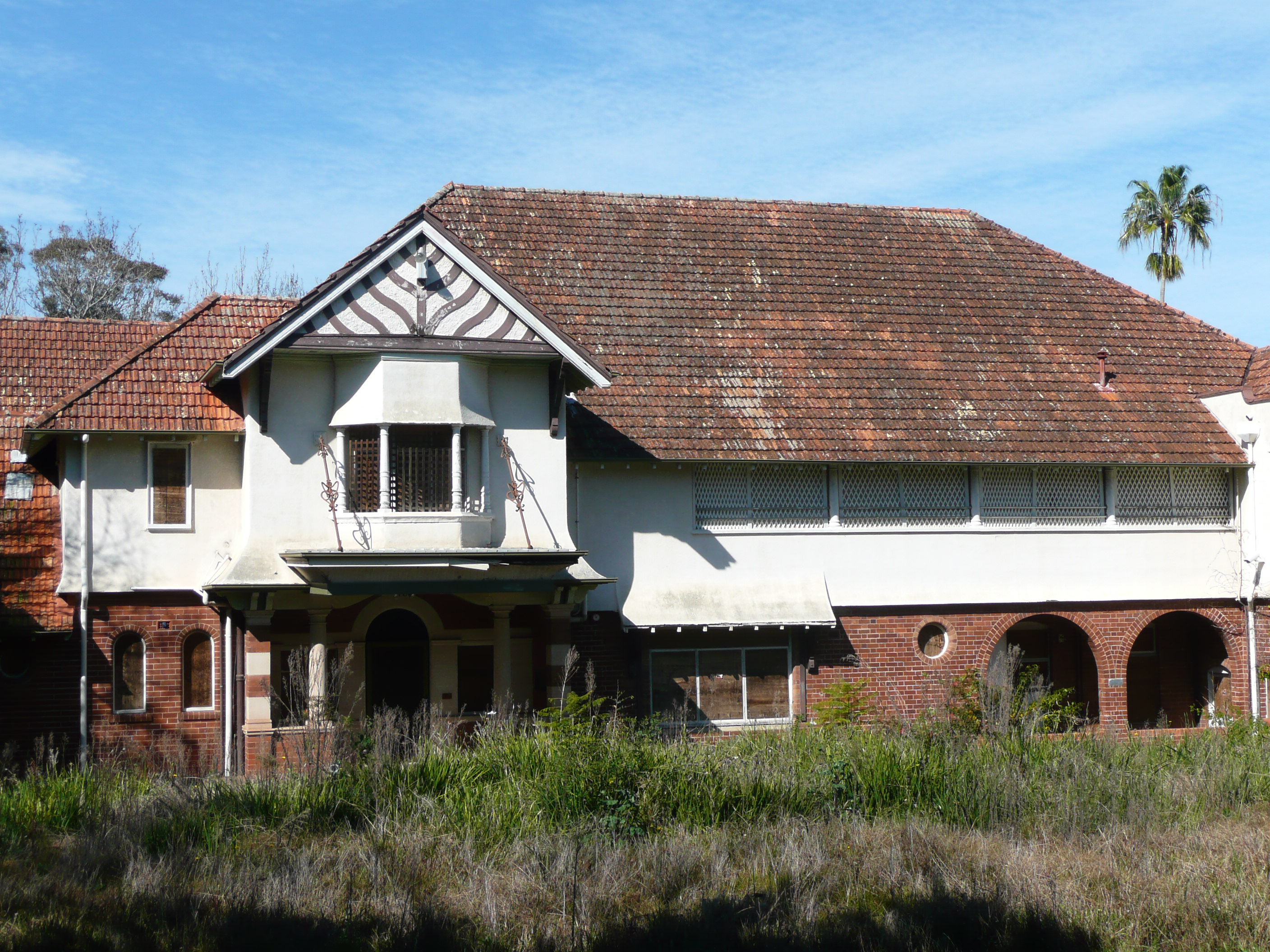 Heritage-listed Arts and Crafts mansion, Rippon Grange, Wahroonga, Sydney, in 2009, before restoration